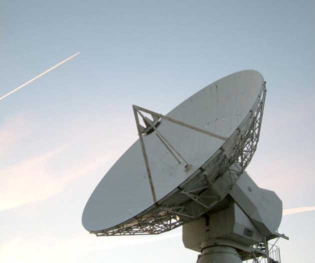 ESA Earth station Redu, Belgium Antenna: Cassegrain, diameter 13,5m Related pictures: Image:Redu135cassegrp.jpg image:redu135cassefrp.jpg image:estrackredurp.jpg Own photograph